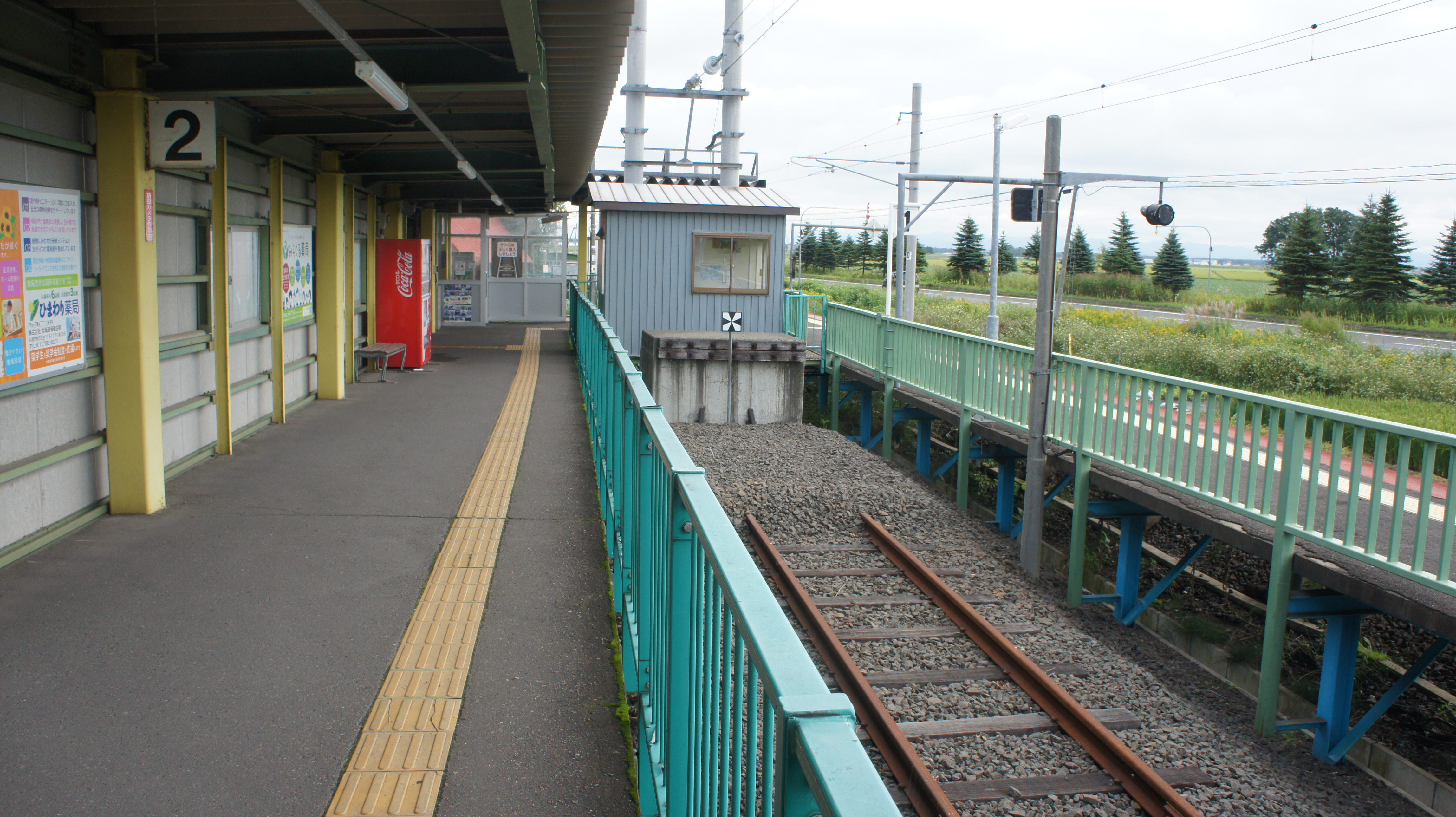 JR Sassho-Line Hokkaido-Iryodaigaku Station Bollard at Platform 2